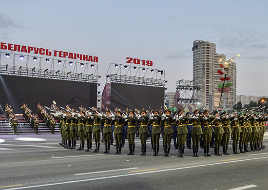 Командующий войсками ЗВО проверил готовность военнослужащих к параду в Минске, посвящённому Дню независимости Белоруссии